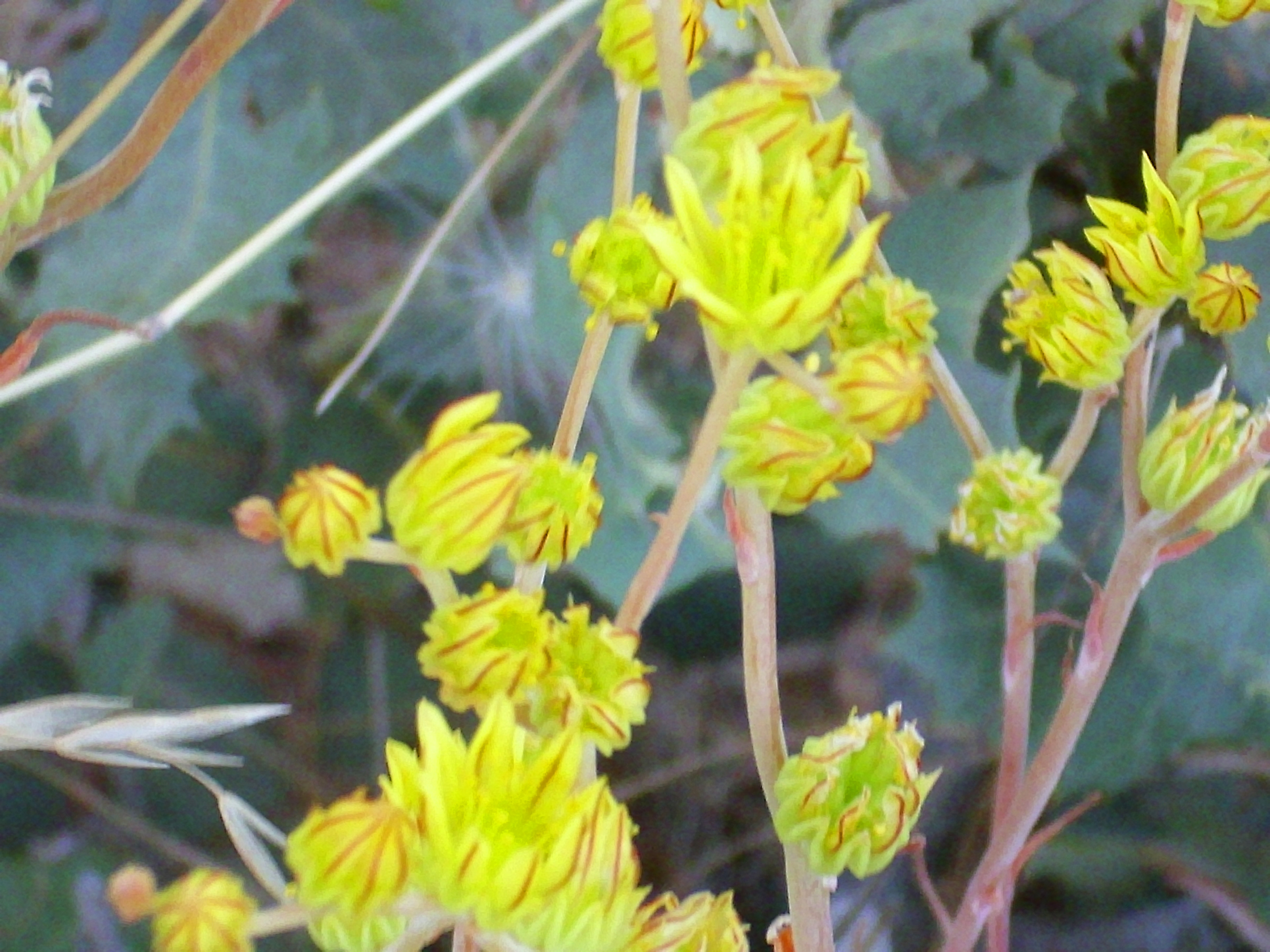 Sedum amplexicaule inflorescence close up, Dehesa Boyal de Puertollano, Spain